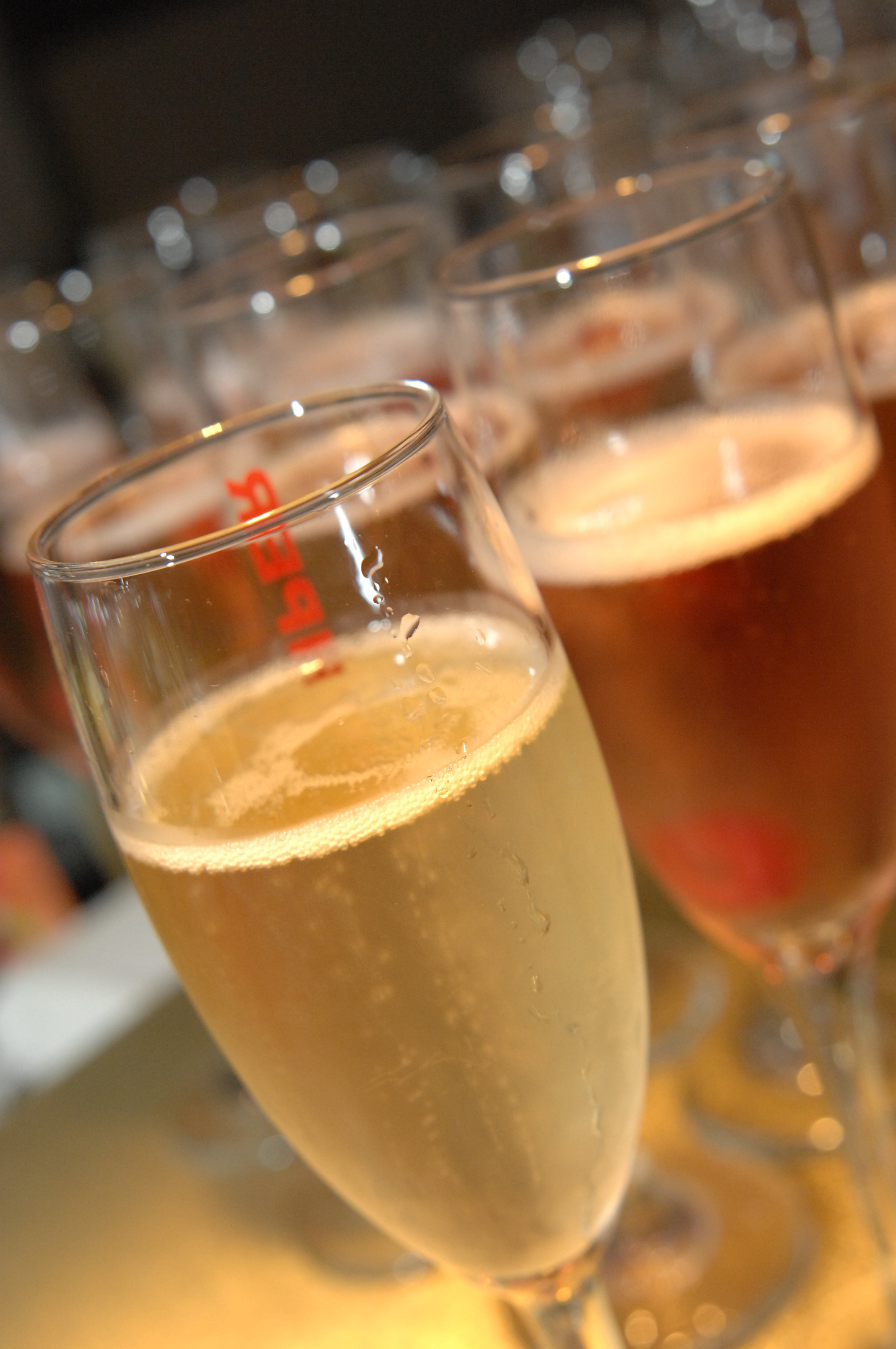 Sparkling wine in flutes